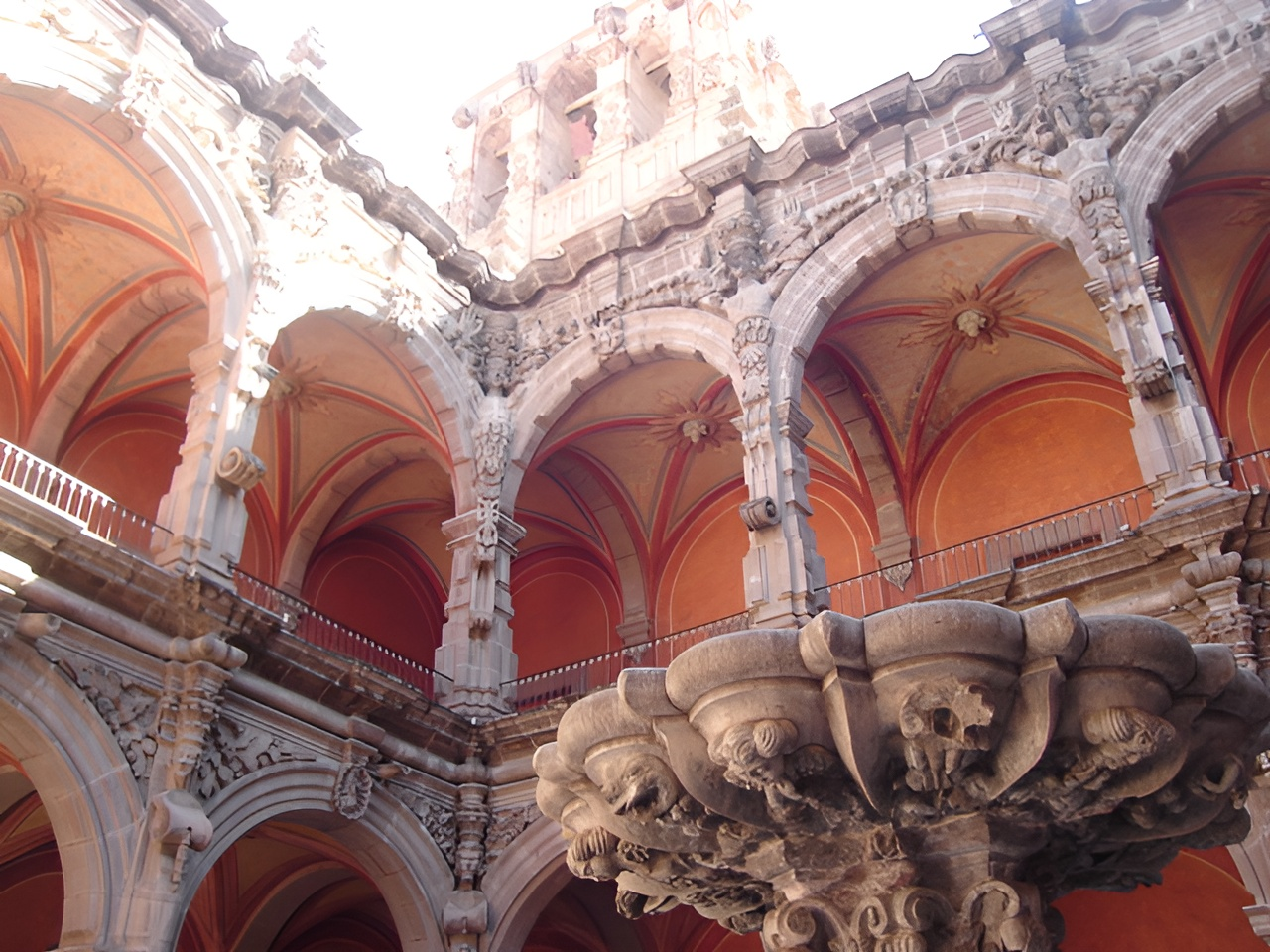 Museum of Art, Querétaro (‘’Ex monastery of San Agustin’’) — view of courtyard and balconies from Spanish Colonial era. In the Centro Histórico of Santiago de Querétaro, Municipality of Querétaro, Querétaro state, México.